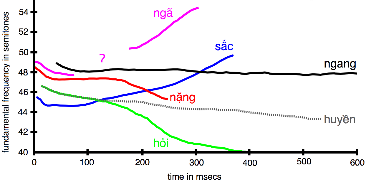 pitch contours and duration of Hanoi tones of a female speaker (age 24) the glottal stop [ʔ] marks the glottal closure in the middle of the ngã tone adapted from Nguyễn & Edmondson (1998: 10).